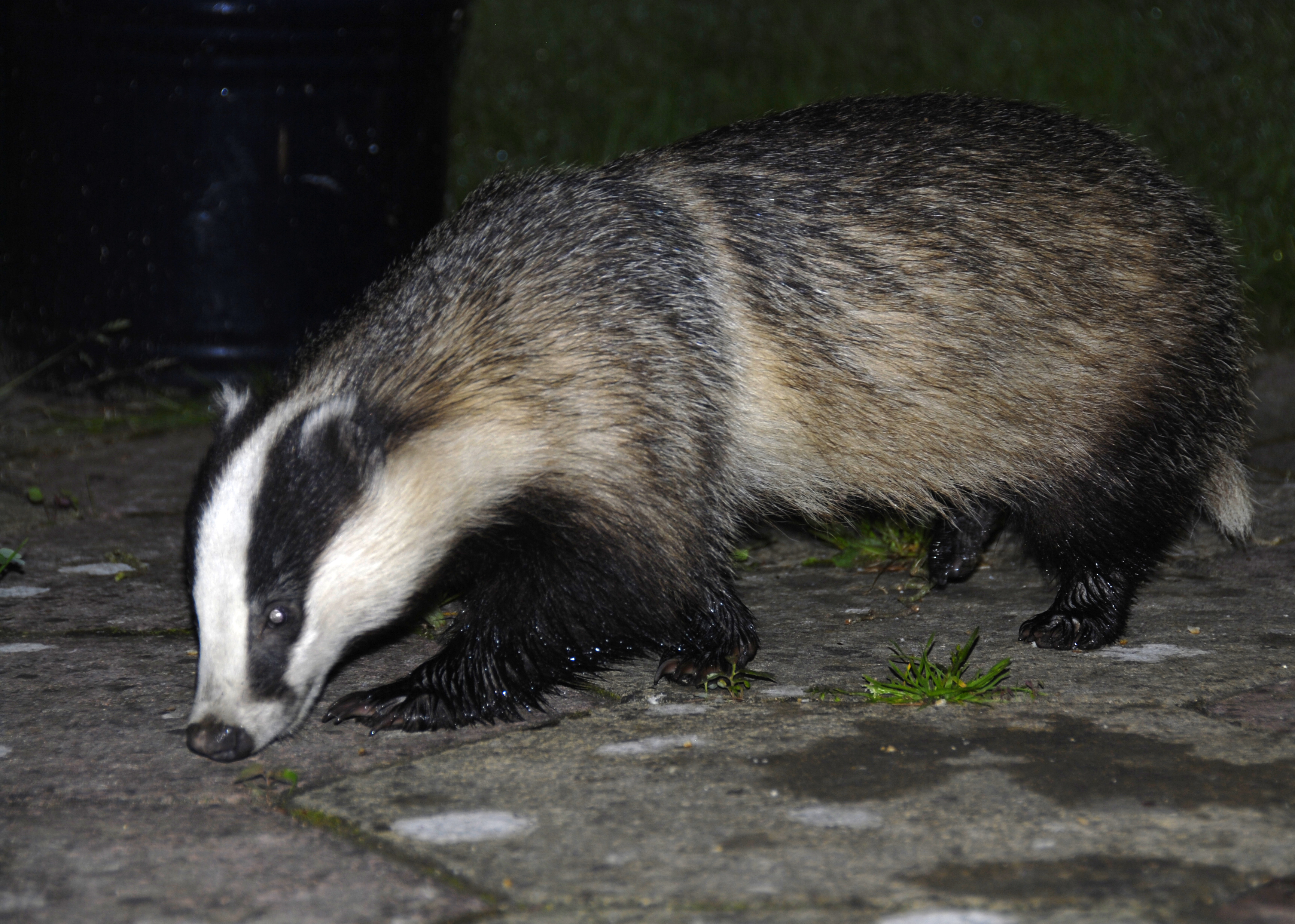 Badger Meles meles eating stale donuts left just a couple of feet from open patio doors. The badger was only a few feet away from me, incredible. The badger didn't seem to be bothered by the flash either. Boxhill, Surrey, UK.